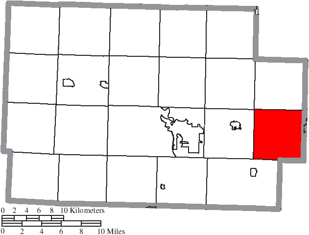 Map of the municipal and township boundaries of Coshocton County, Ohio, United States, as of the 2000 census, with the location of Oxford Township highlighted. Township borders are shown only in unincorporated areas in order to differentiate incorporated and unincorporated areas more clearly.